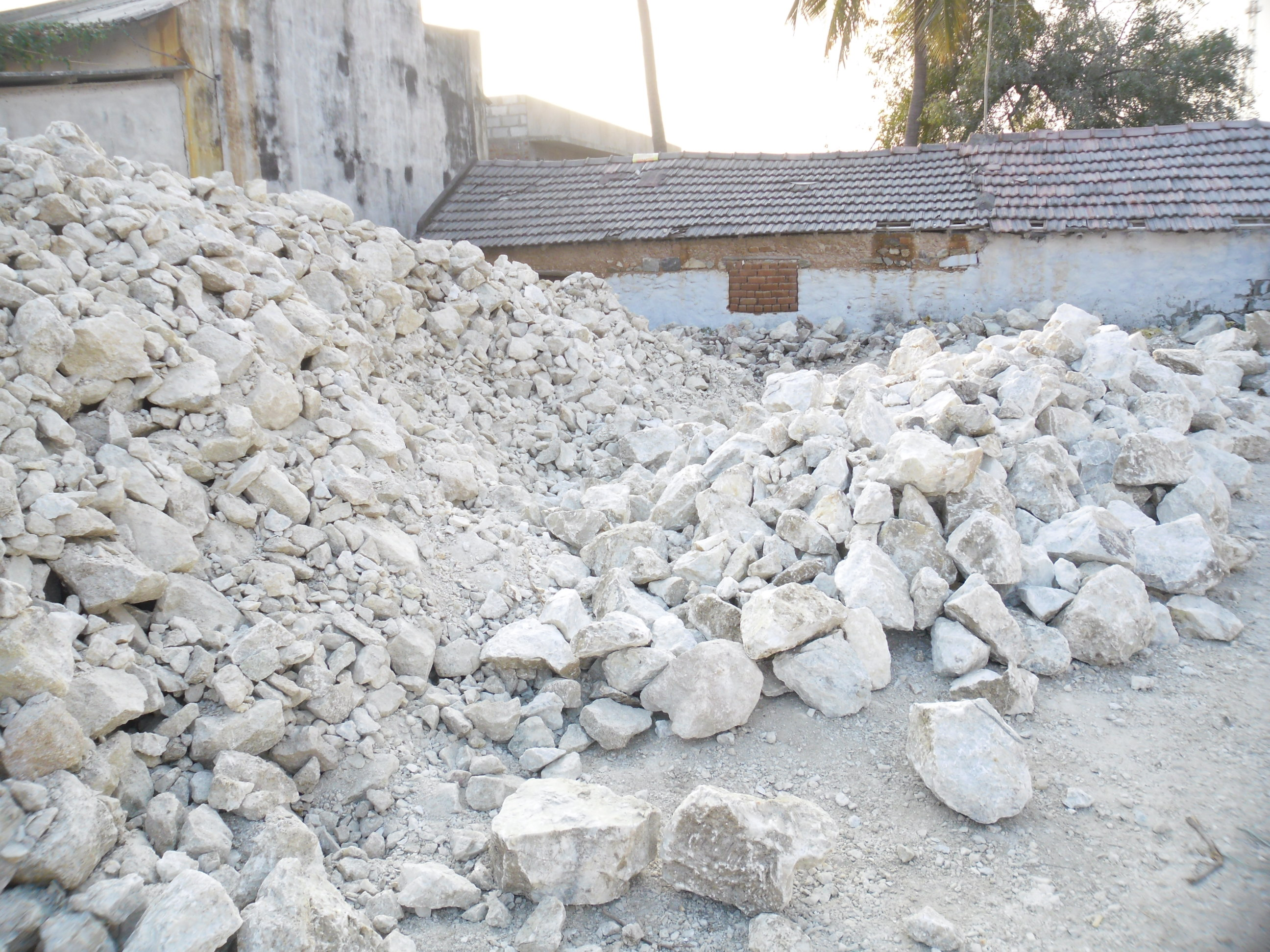 White color stones for making Kolam flour